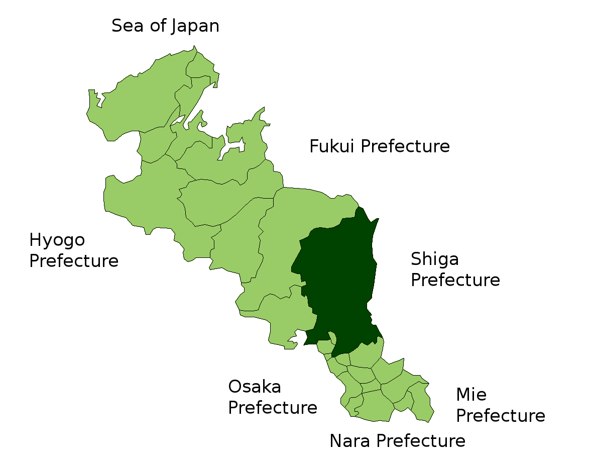 Location Map of Kyoto in Kyoto-fu, Japan